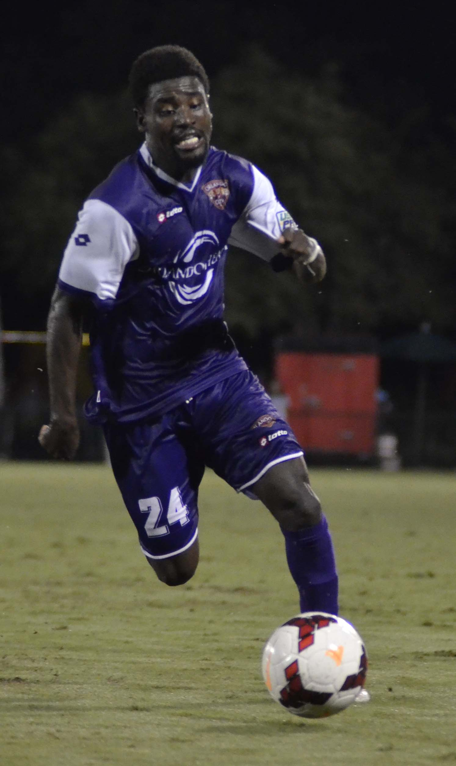 Valdmiro Lameira playing for Orlando City on 9-6-14 against the Richmond Kickers